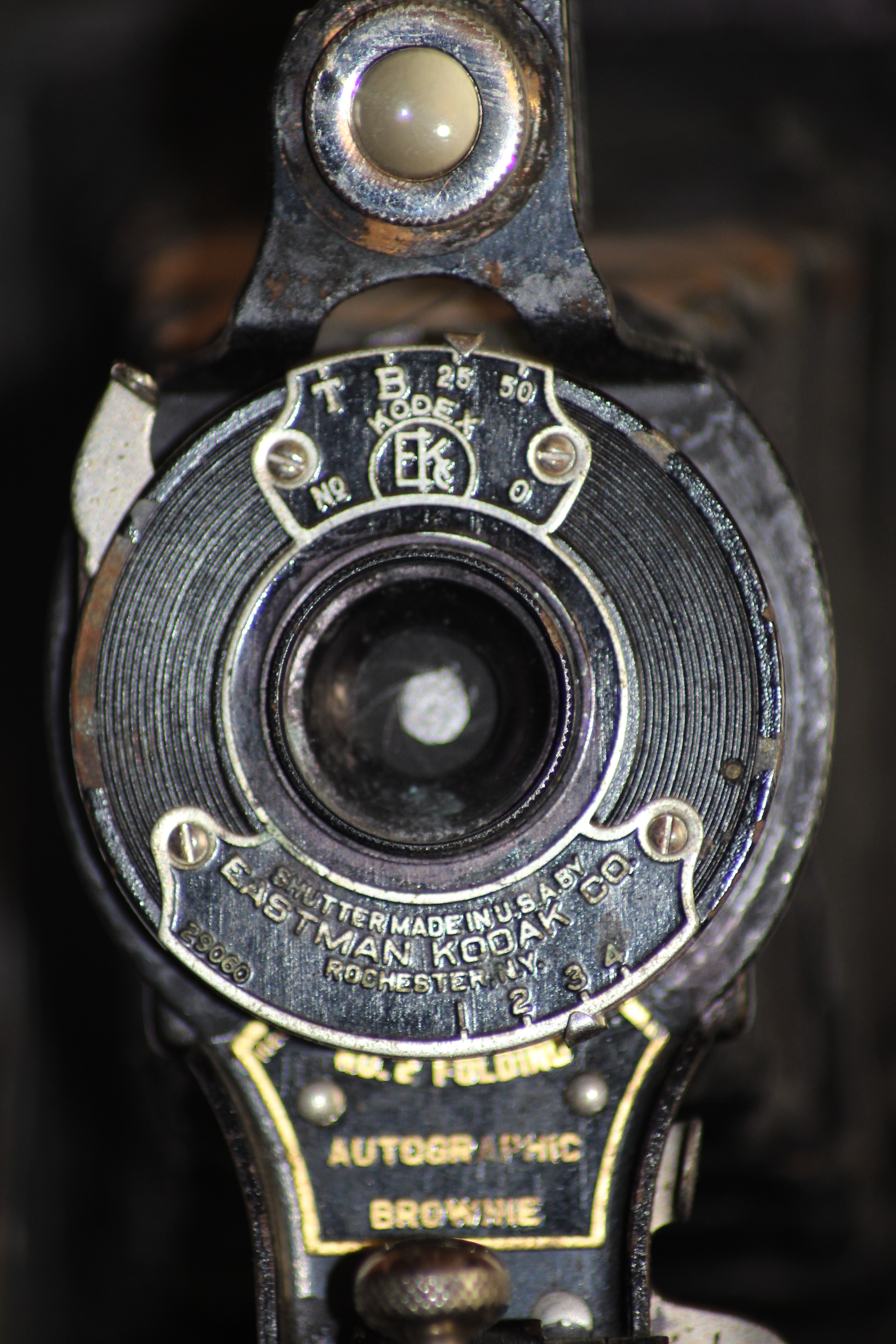 Close-up on the objective of a Kodac Brownie n°2